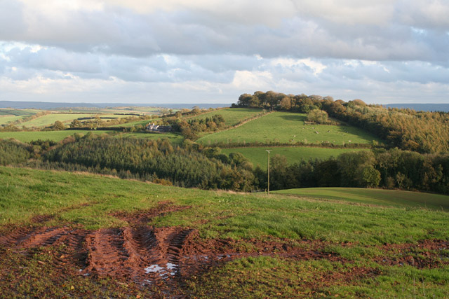 Huntsham: east to Huntsham Castle. The castle is indicated as a settlement on the OS map, at the top of a 264m high hill. Looking roughly east from the lane above Spurways, which with woodland to the right of the image, known as Meredown Coverts, is in Tiverton parish